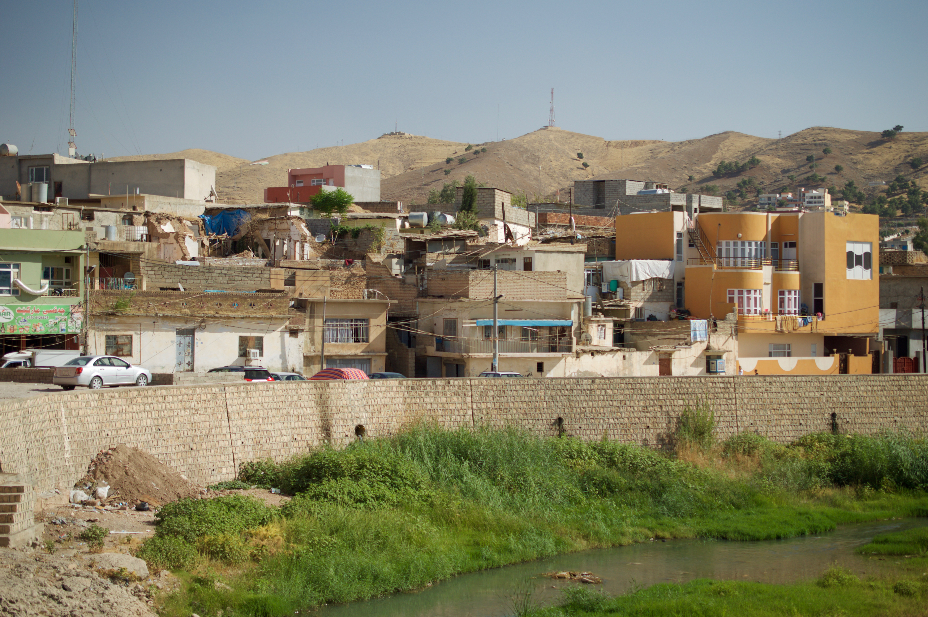 View of the old quarter in Zakho, located on an island in the Khabur